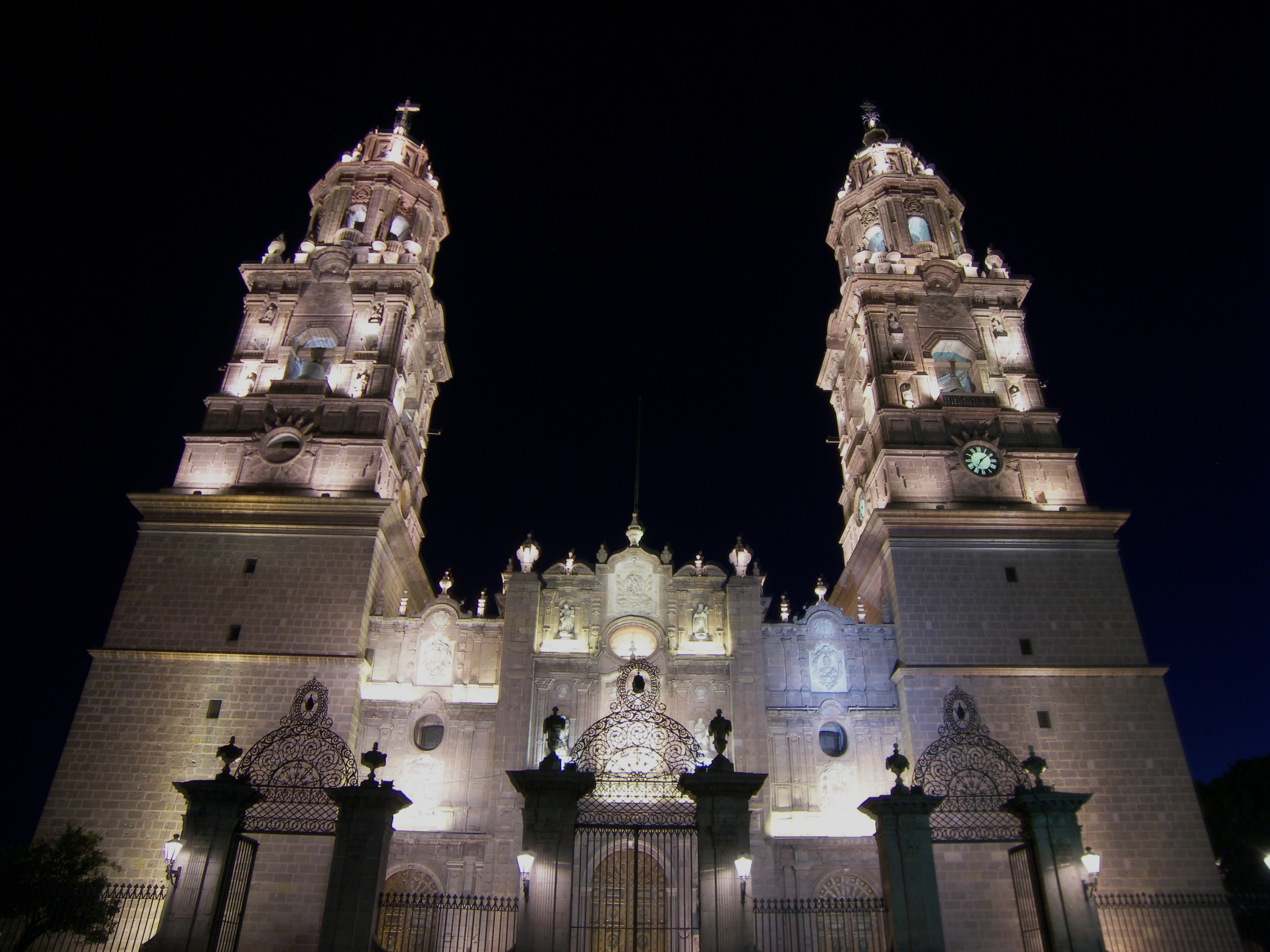 Catedral de Morelia ,Michoacán , México. trabajo propio Cathedral of Morelia ,Michoacán, México. own work marzo 2007